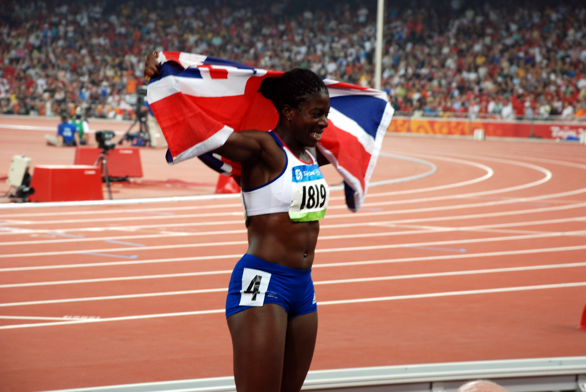 Christine Ohuruogu after her victory in the 400 meters at the bird's nest, Beijing, august 19th 2008